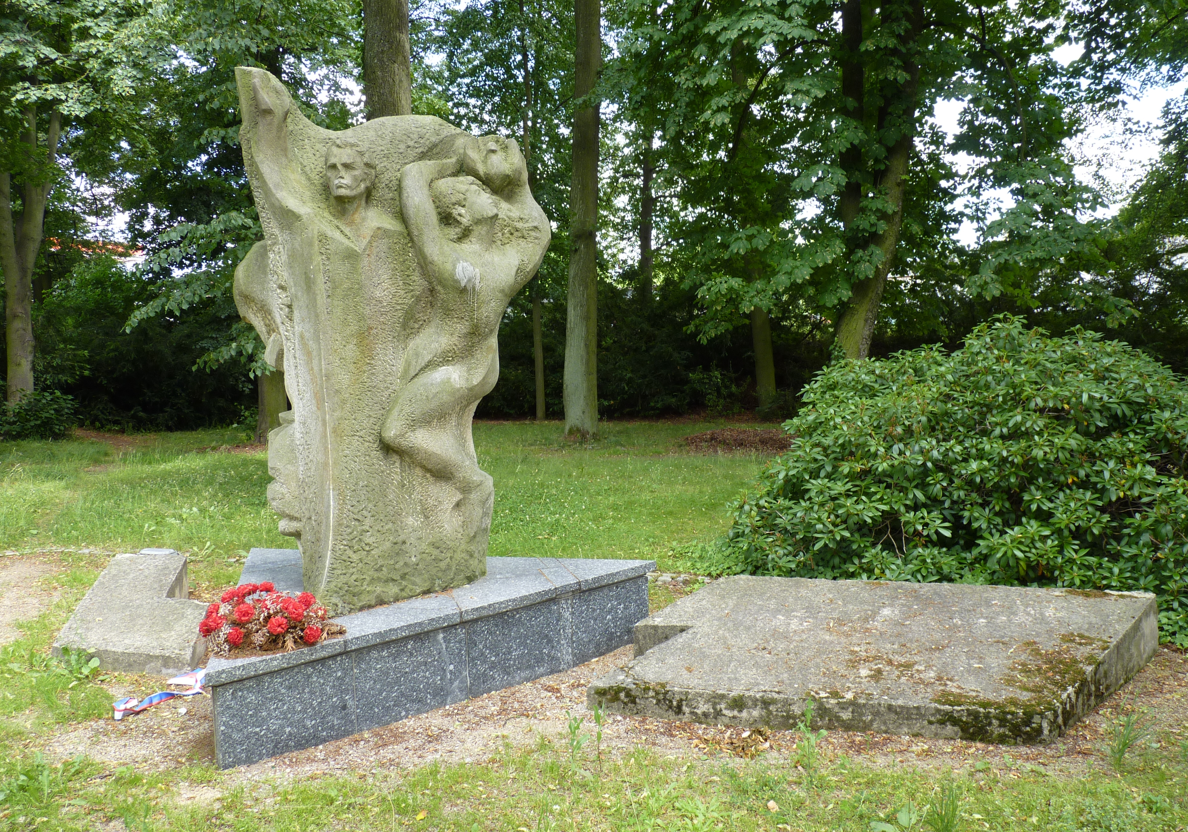 Holičky (Třeboň). Jindřichův Hradec District, South Bohemian Region, Czech Republic